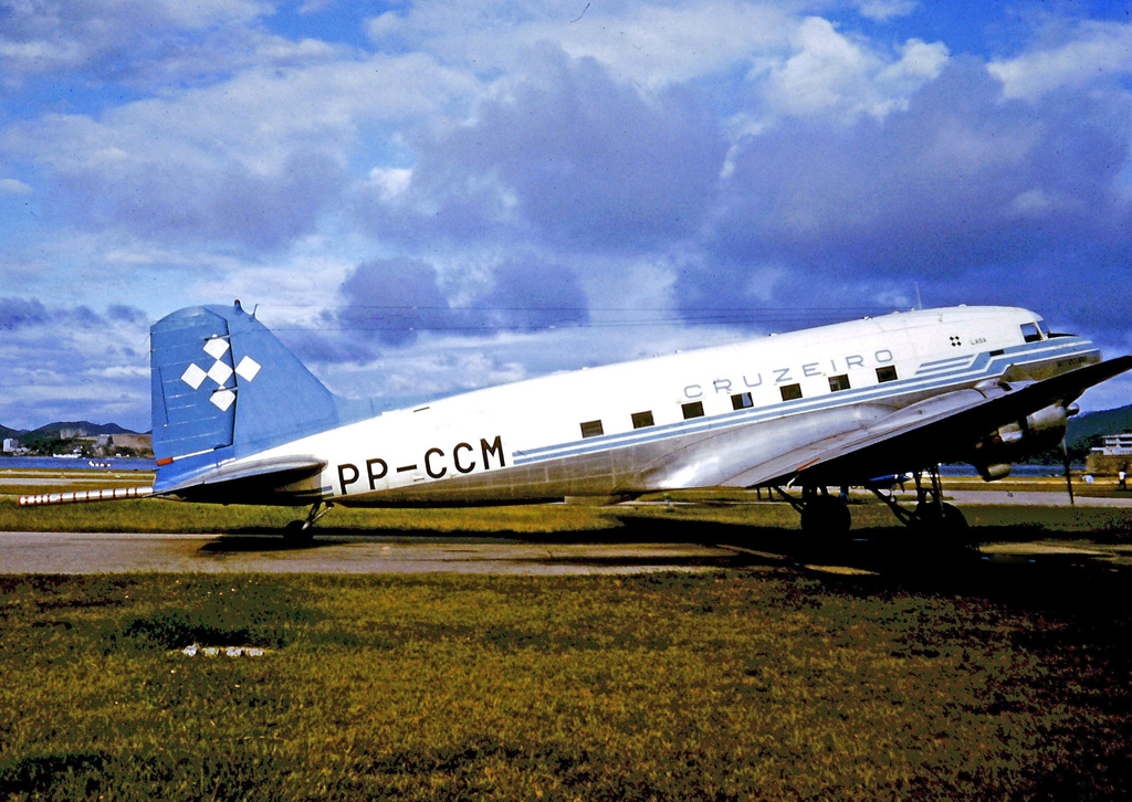 Douglas C-47A (DC-3) of Cruzeiro used for survey work in 1975 with tail magnetometer